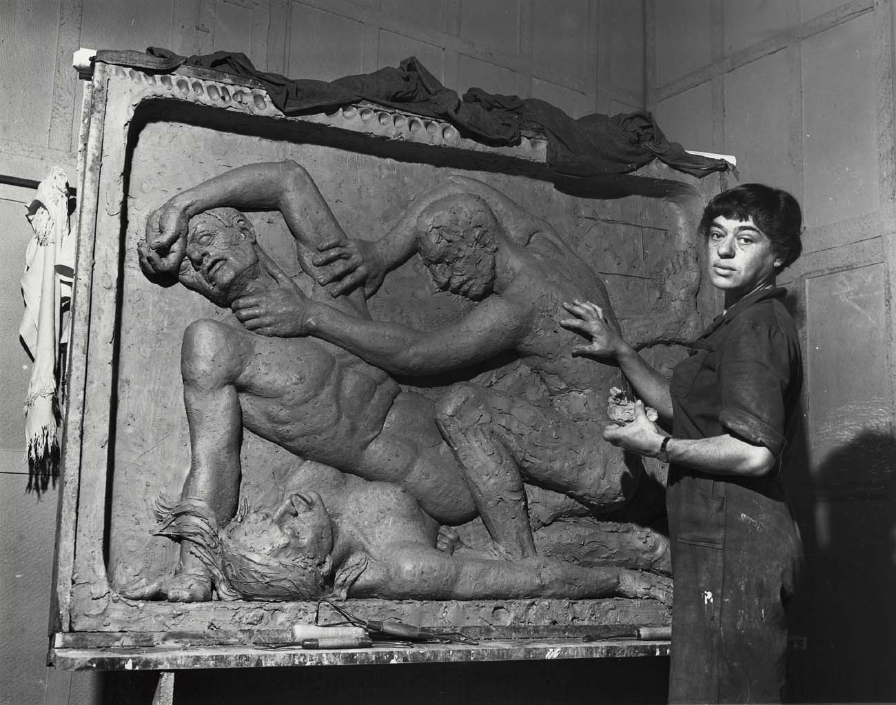 Description: Helene Sardeau often conveyed contemplation, serenity and humanism in her work. Her first major commission, Slave (1933) was executed for a sculpture garden in Fairmount Park, Philadelphia. She sculpted under the pseudonym "Sardeau" even after she married fellow painter George Biddle. Creator/Photographer: Peter A. Juley & Son Medium: Black and white photographic print Dimensions: 8 in x 10 in Culture: American Persistent URL: [1] Repository: Archives of American Art Native nameArchives of American ArtLocationWashington, D.C.Coordinates38° 53′ 52″ N, 77° 01′ 22″ W Established1954Website control : Q2860568 VIAF: 151134814 ISNI: 0000 0001 2185 0758 LCCN: n79065944 NLA: 35007823 GND: 1085306631 WorldCat Collection: Peter A. Juley & Son Collection - The Peter A. Juley & Son Collection is comprised of 127,000 black-and-white photographic negatives documenting the works of more than 11,000 American artists. Throughout its long history, from 1896 to 1975, the Juley firm served as the largest and most respected fine arts photography firm in New York. The Juley Collection, acquired by the Smithsonian American Art Museum in 1975, constitutes a unique visual record of American art sometimes providing the only photographic documentation of altered, damaged, or lost works. Included in the collection are over 4,700 photographic portraits of artists. Accession number: J0066480